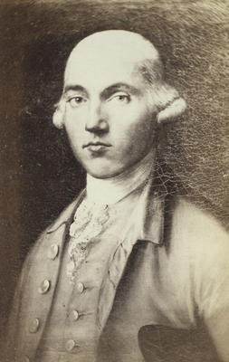 Portrait (19th century photograph) of George Oswald of Scotstoun (1735–1819), Scottish merchant.